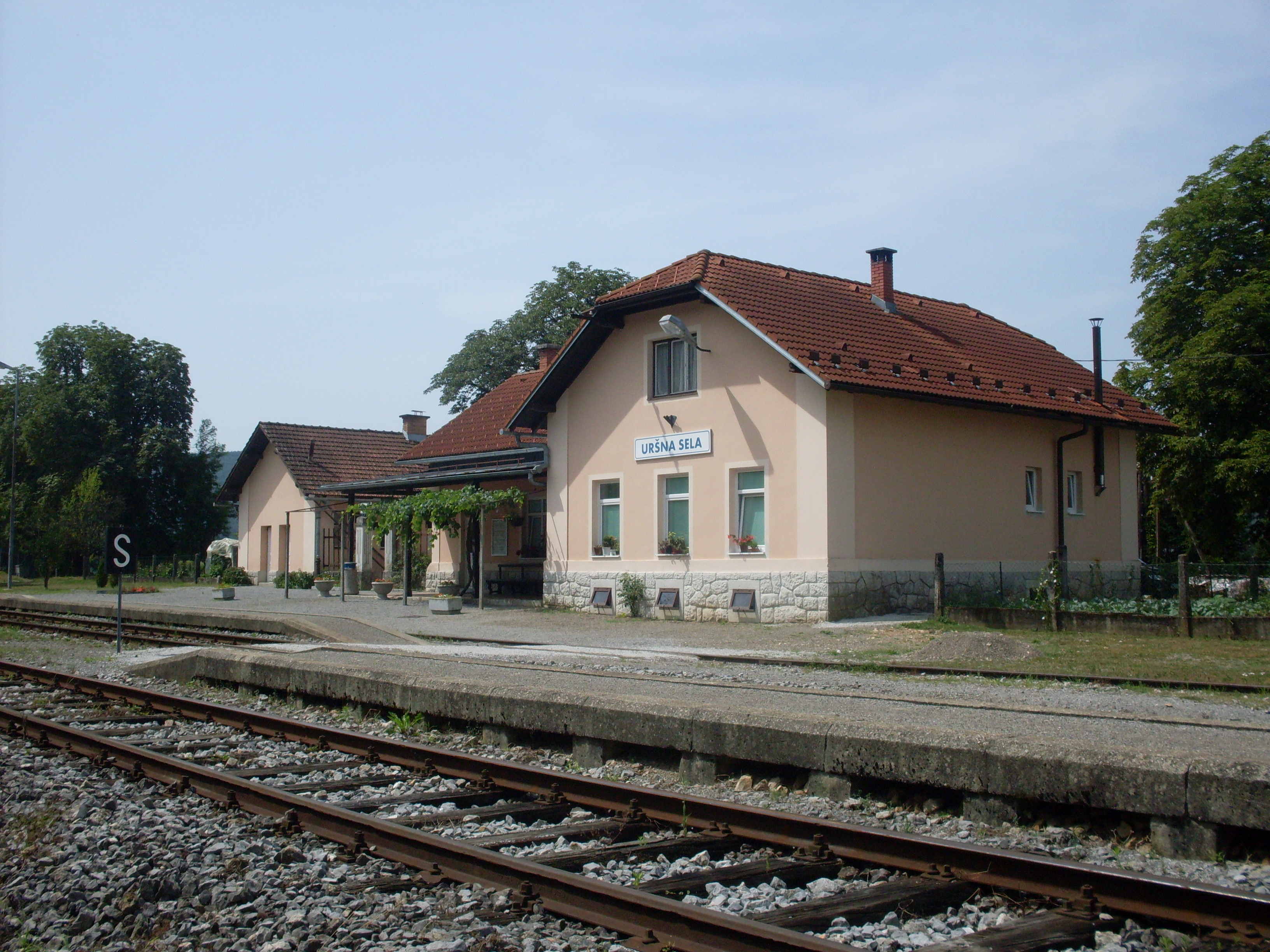 Train station in Uršna selaSlovenščina: Železniška postaja Uršna sela